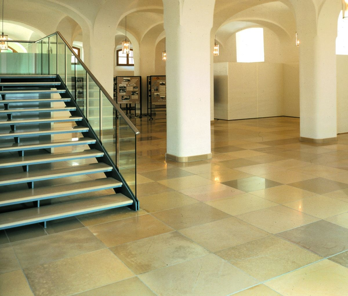 District Office Amberg. Solnhofen fine honed.